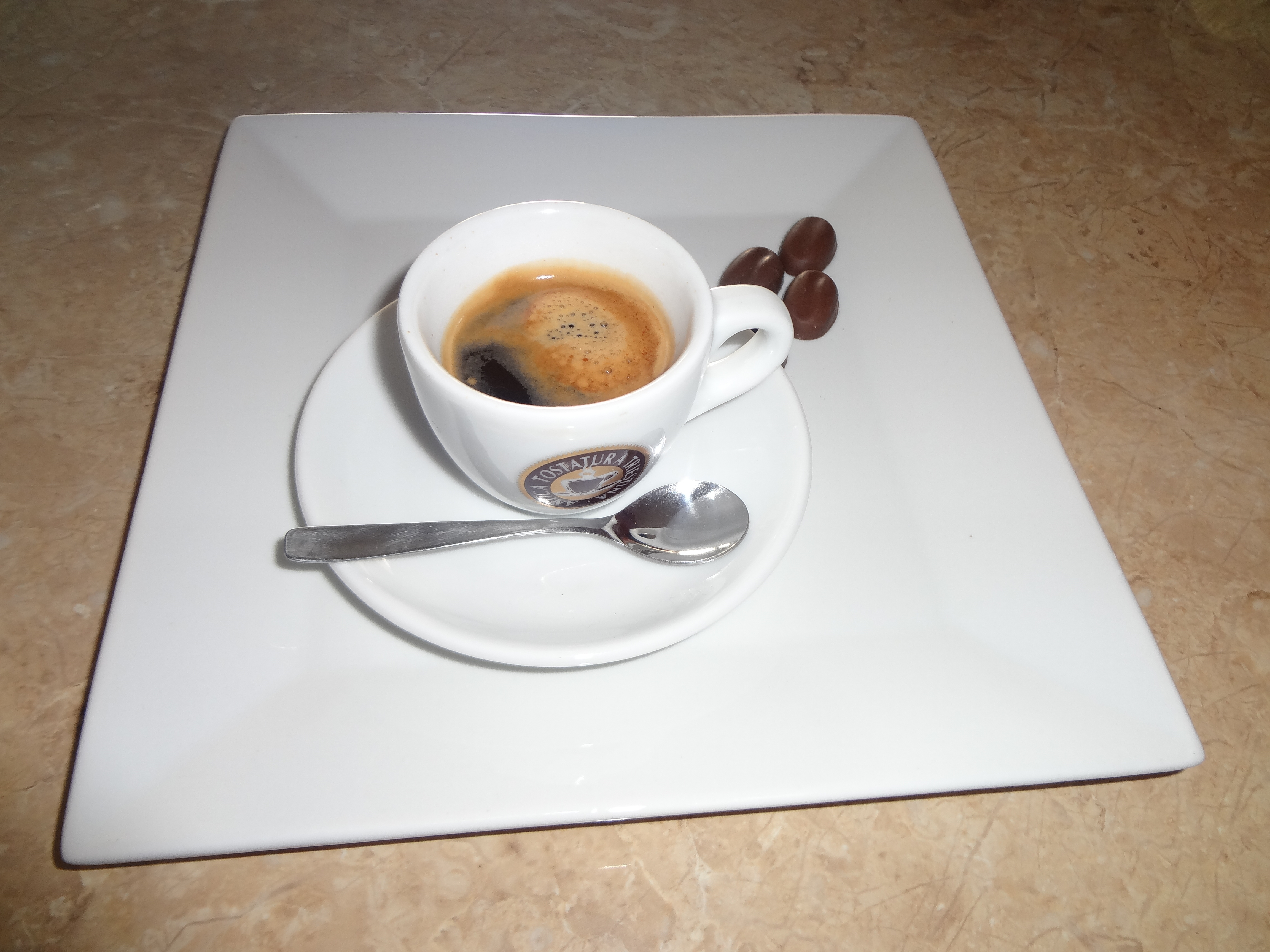 (A Donde Vamos, Quito) Chocolate and Espresso Photography by David Adam Kess